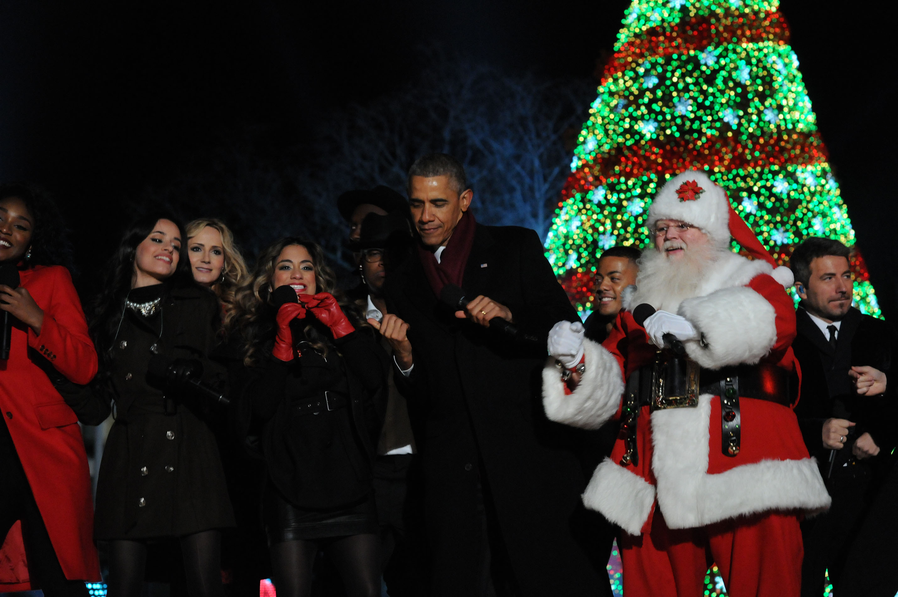 Barack Obama dances on stagewith Santa Claus in the show's finale . Also pictured: Fifth Harmony, Nico & Vinz, Ne-Yo